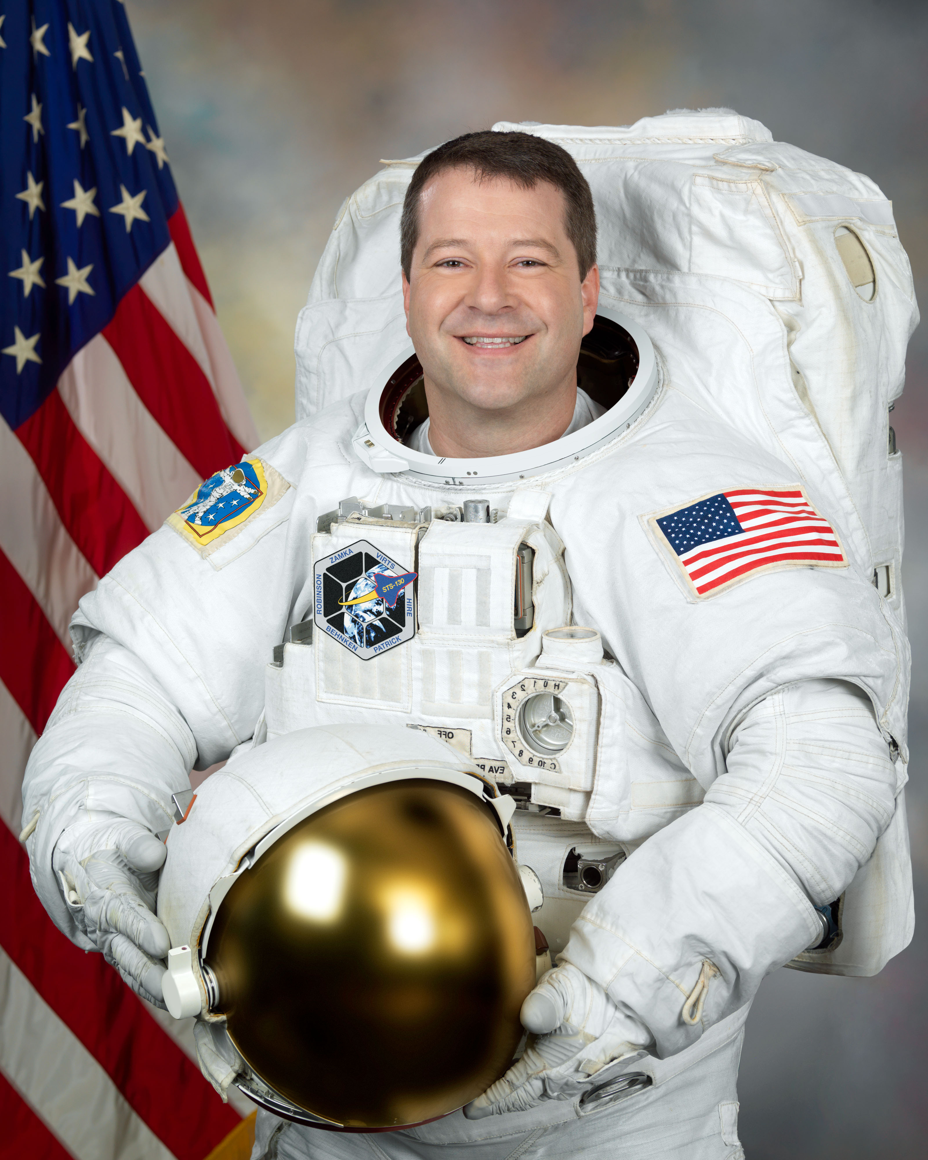 Astronaut Nicholas J. M. Patrick, mission specialist